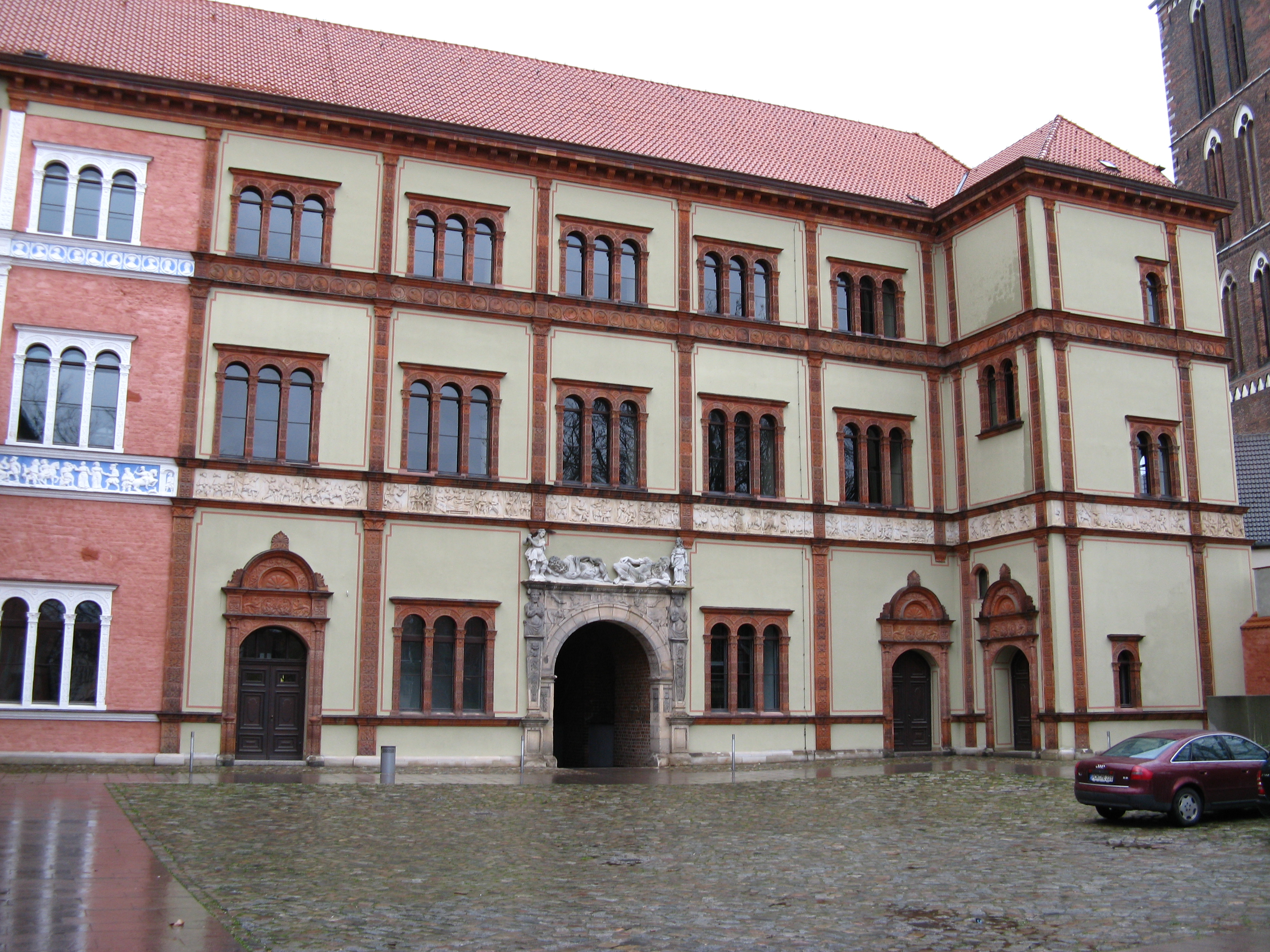 Fürstenhof (Fürsts court) in Wismar, Germany, court side